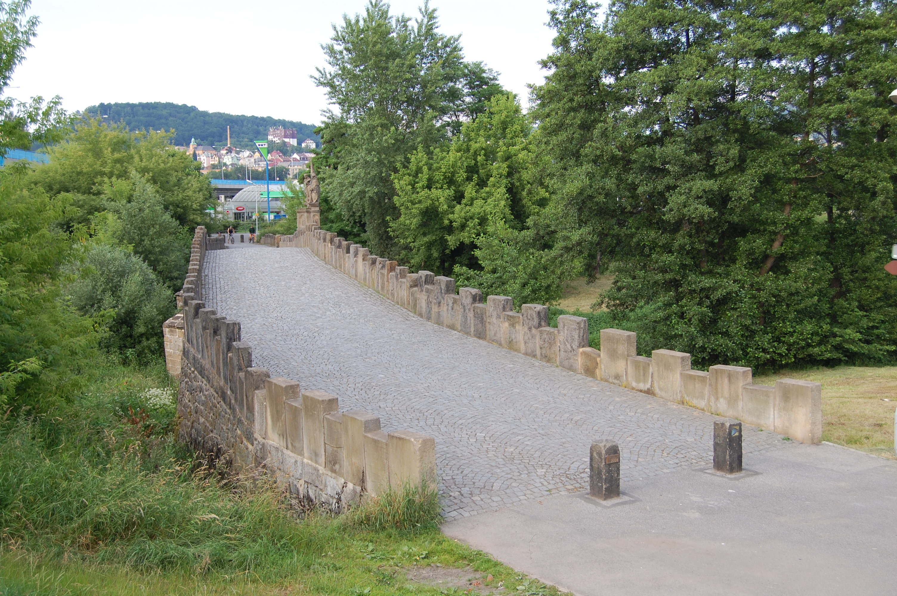 Old Town Bridge on Ploučnice river.